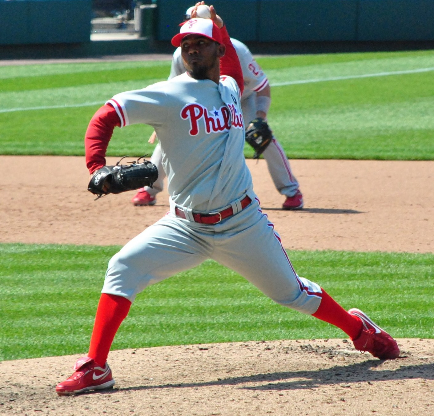 Antonio Bastardo of the Philadelphia Phillies pitching at Nationals Park on May 30, 2011.